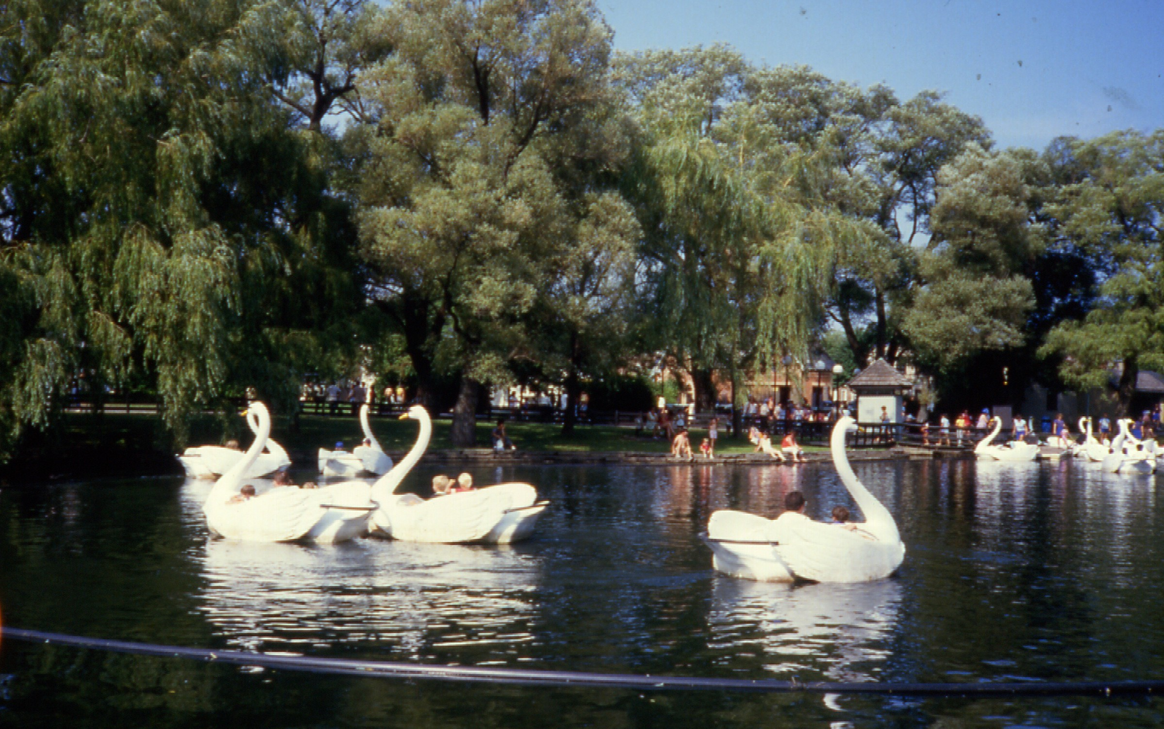 Swan boat ride in Centreville Amusement Park, an amusement park on Middle Island in the Toronto Islands.